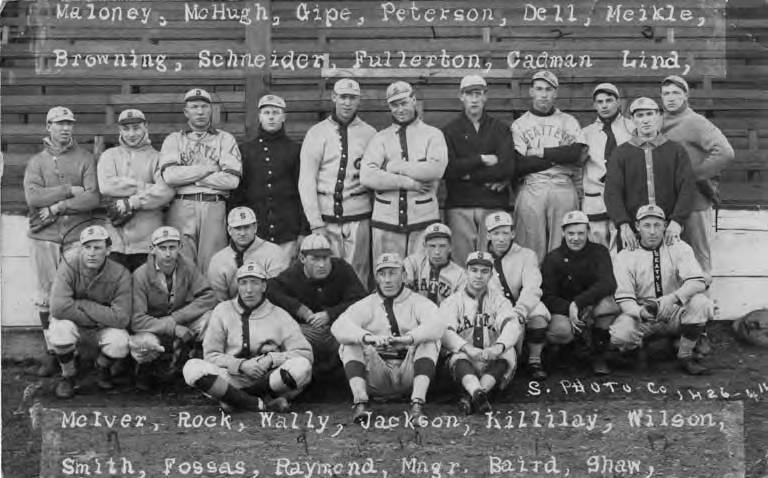 In 1912 the Giants finished with a 99-66 seasons and claimed the Northwestern League pennant at Dugdale's Yesler Way Park. Caption on image: Maloney, McHugh, Gipe, Peterson, Dell, Meikle, Browning, Schneider, Fullerton, Cadman, Lind, McIver, Rock, Wally, Jackson, Killilay, Wilson, Smith, Fossas, Raymond, Mngr. Baird, Shaw. S. Photo Co. Photographer's reference number: H26. Postmarked Aug 16 1914 from Seattle; cancellation mark advertises "World's Panama-Pacific Exposition in San Francisco 1915, " one-cent stamp. Handwritten on verso: Seattle Wn - August 15/14 - This is a card that I got for you during the base-ball season 1912 (the year Seattle won the pennant) - The circles around the players designate the ones who were regular players - Hope you will be able to attend a ball game with me - soon - as ever, MEO. Addressed to Miss C.H. Ober in Seattle. Filed in Seattle--Sports Subjects (LCSH): Baseball--Washington (State)--Seattle; ; Baseball players--Washington (State)--Seattle;; Portraits, Group--Washington (State)--Seattle